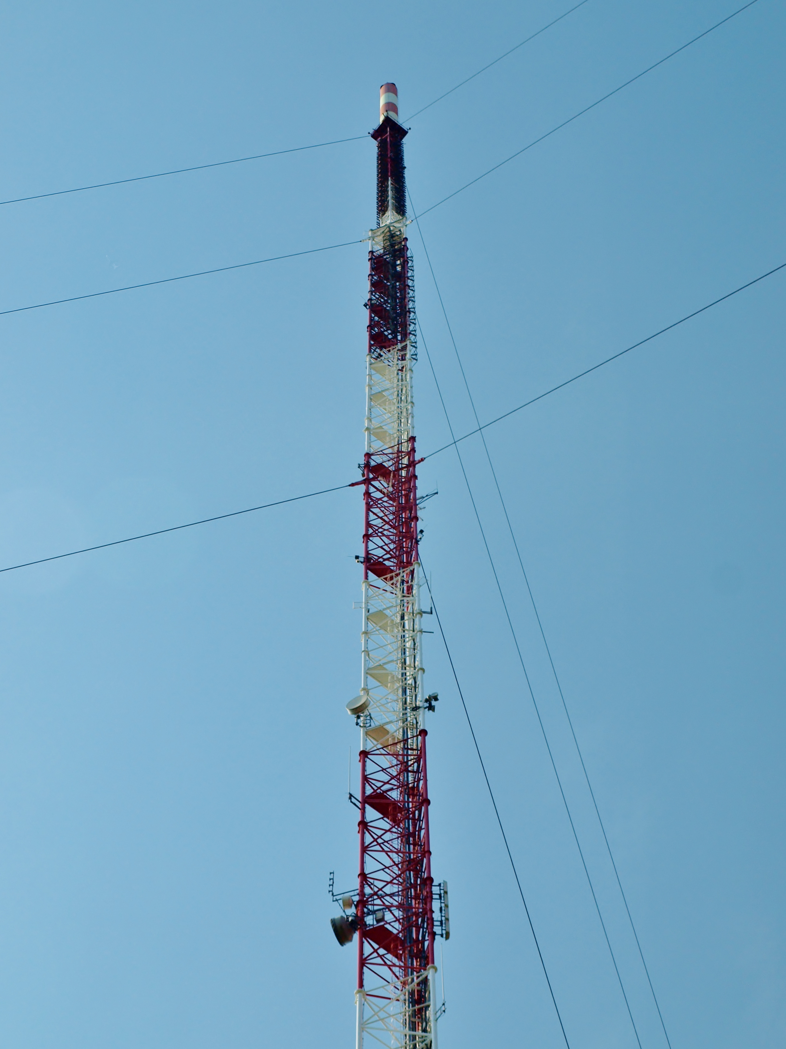 Chorągwica - the 286 meters high pole of RTV broadcasting center